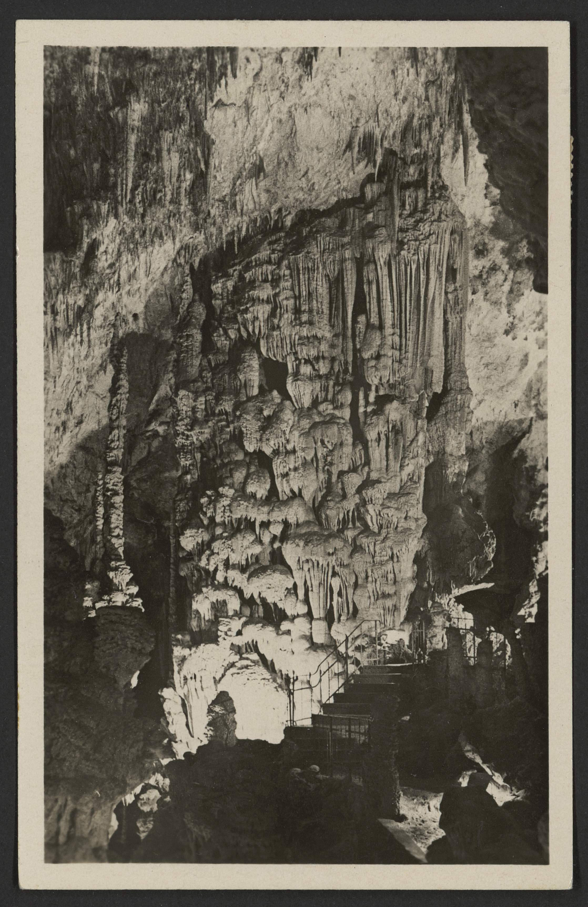 Ardèche